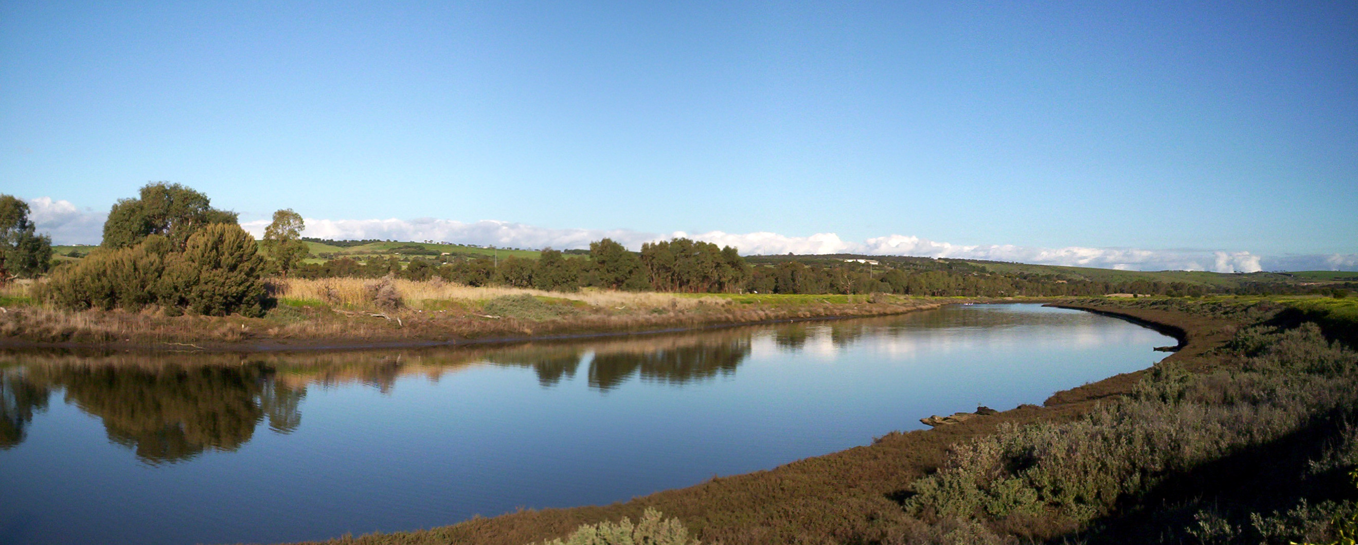 Panorama of an Onkaparinga Estuary north of the airstip taken by myself in August 2007.